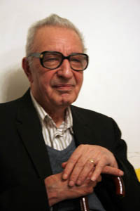 Parviz Shahriari (1926 - 2012), Iranian mathematician, translator and writer.